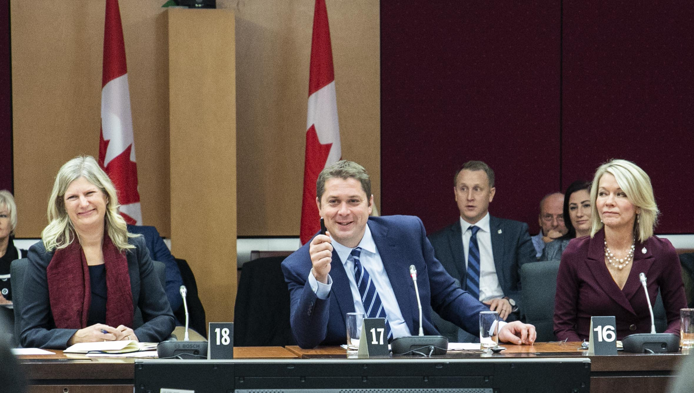 Our Conservative Shadow Cabinet met for the first time yesterday. We are ready for Parliament to return this week and to fight for Canadians. My team will always stand up for a strong, united Canada and to make life more affordable for you and your family.